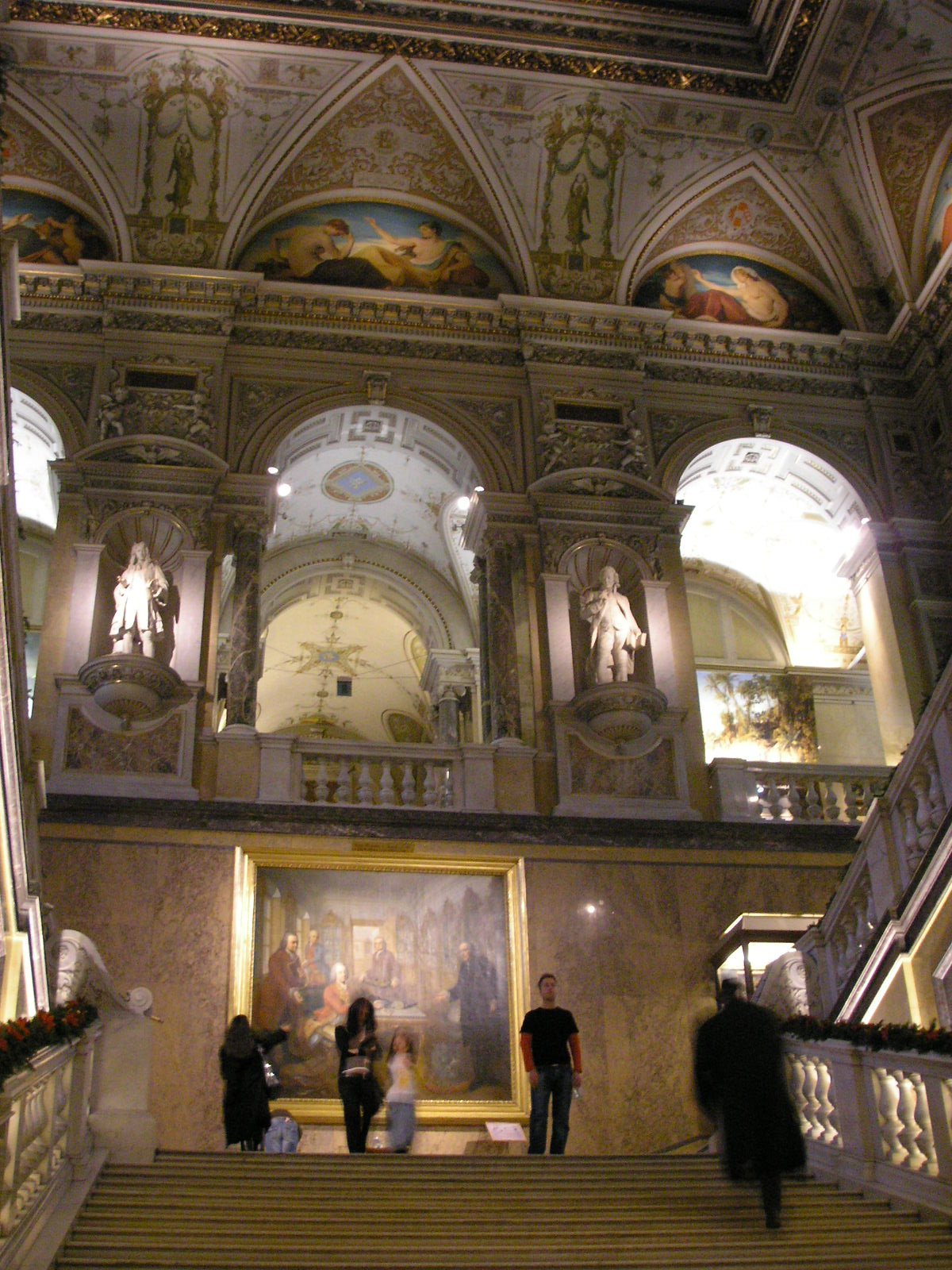 Austria, Vienna, Naturhistorisches Museum